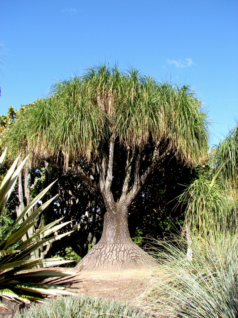 Nolina recurvata Agavaceae Origin: Mexico Location: Mt. Coot-tha botanic garden, Brisbane, Australia